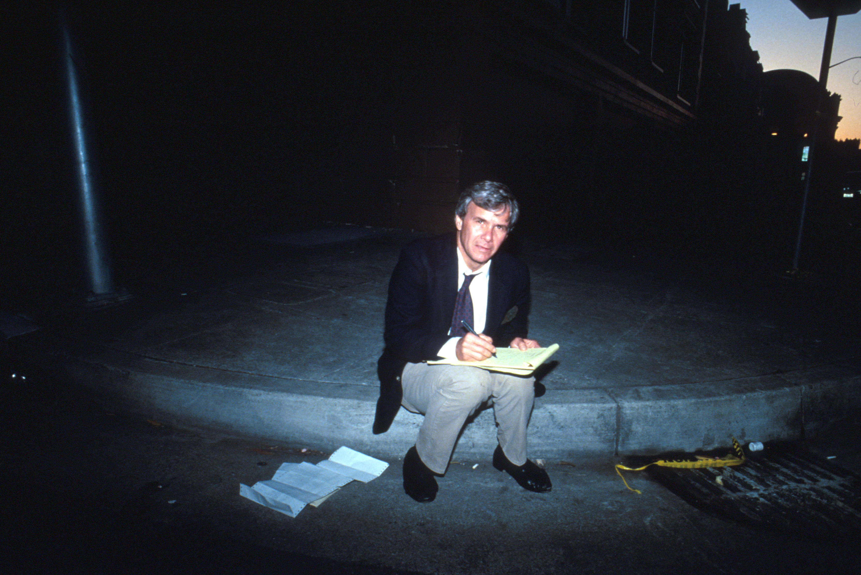 Loma Prieta, California, Earthquake October 17, 1989. San Francisco. Tom Brokaw of NBC News prepares a script for a live broadcast from the Marina District. Slide I-12, U.S. Geological Survey Open-File Report 90-547.